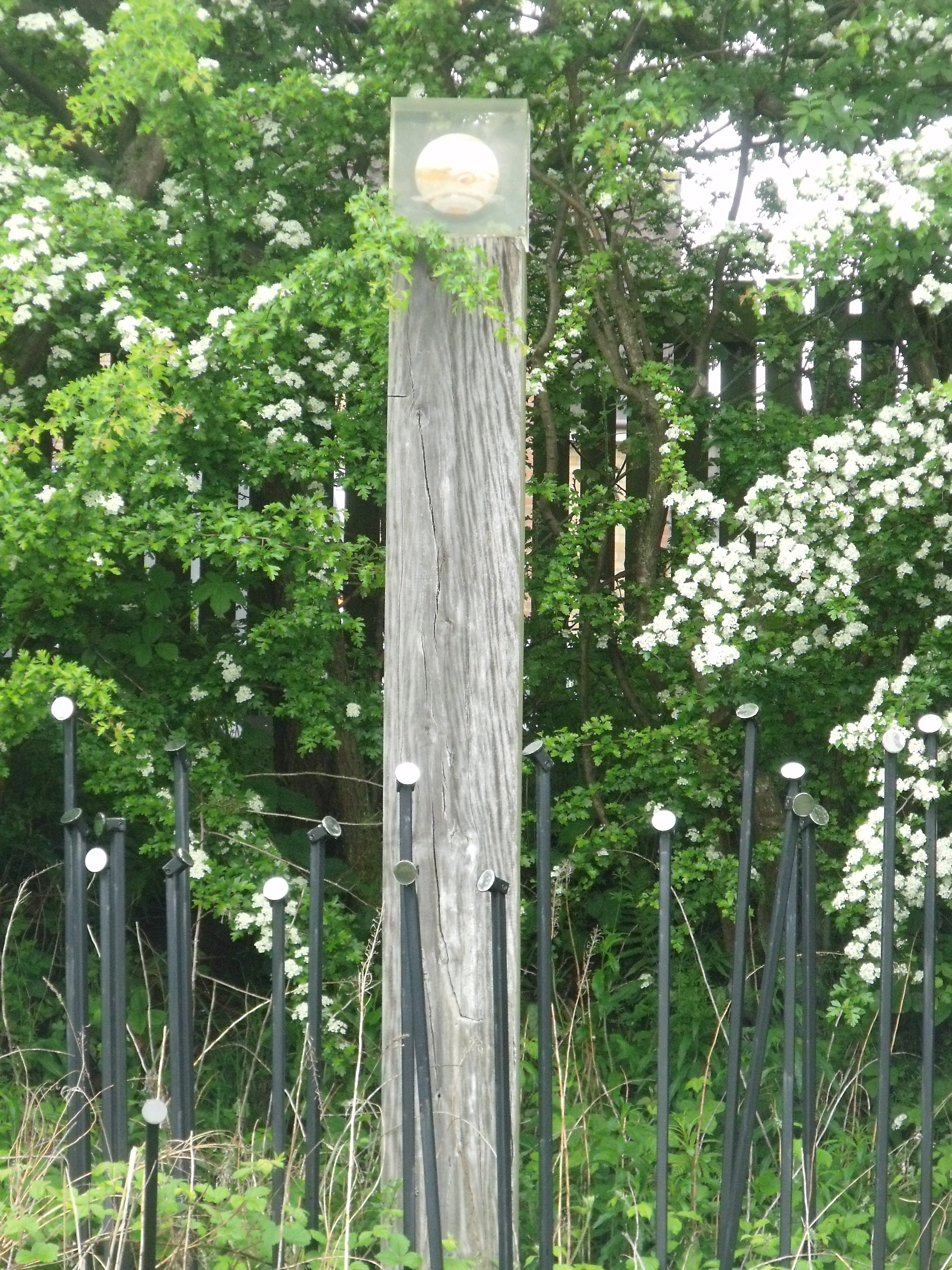 The sculpture representing Jupiter from the Kirkhill Pillar Project, Broxburn, Scotland.